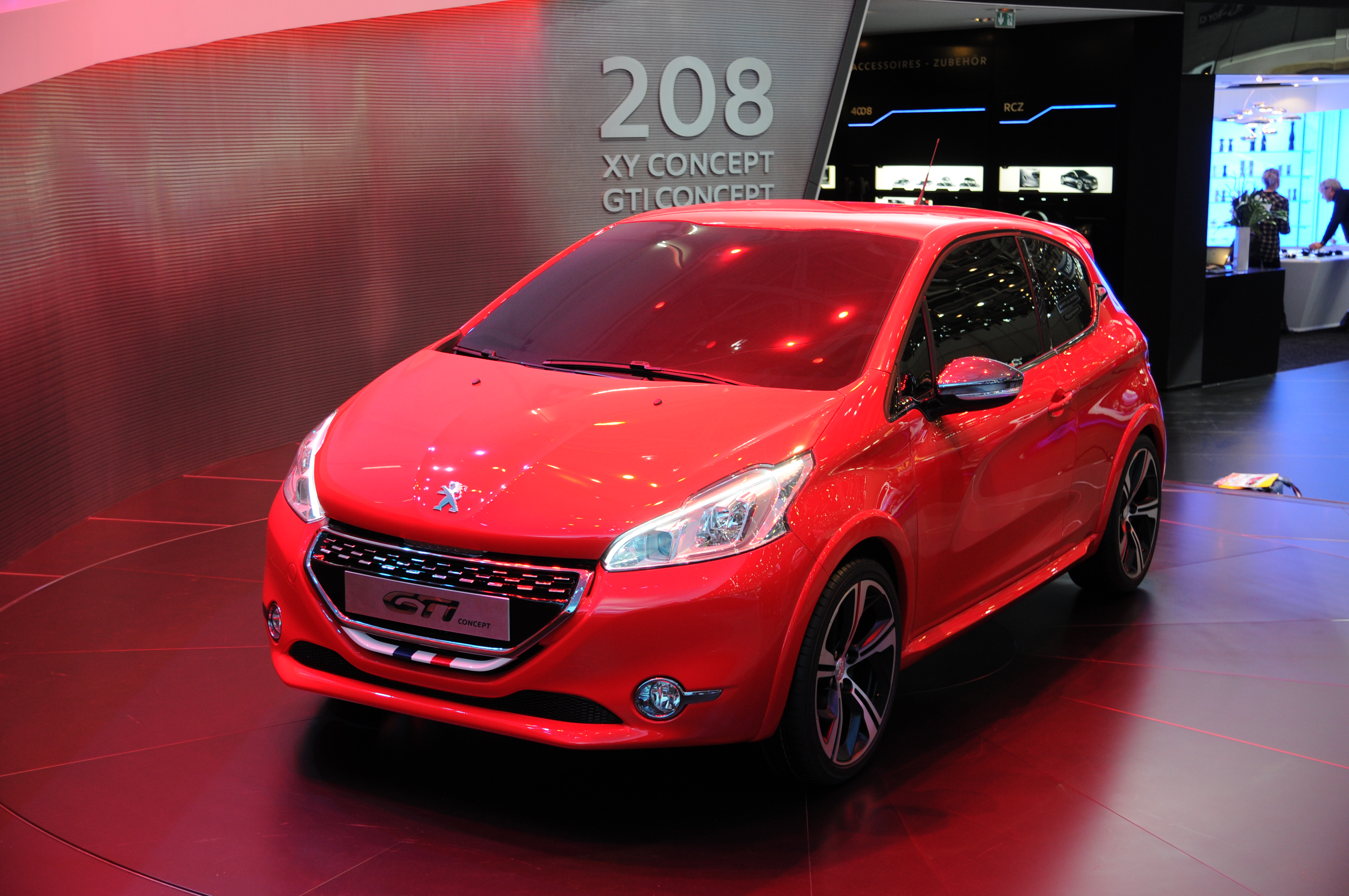 Geneva Motor Show 2012 (photos taken on the second press day)